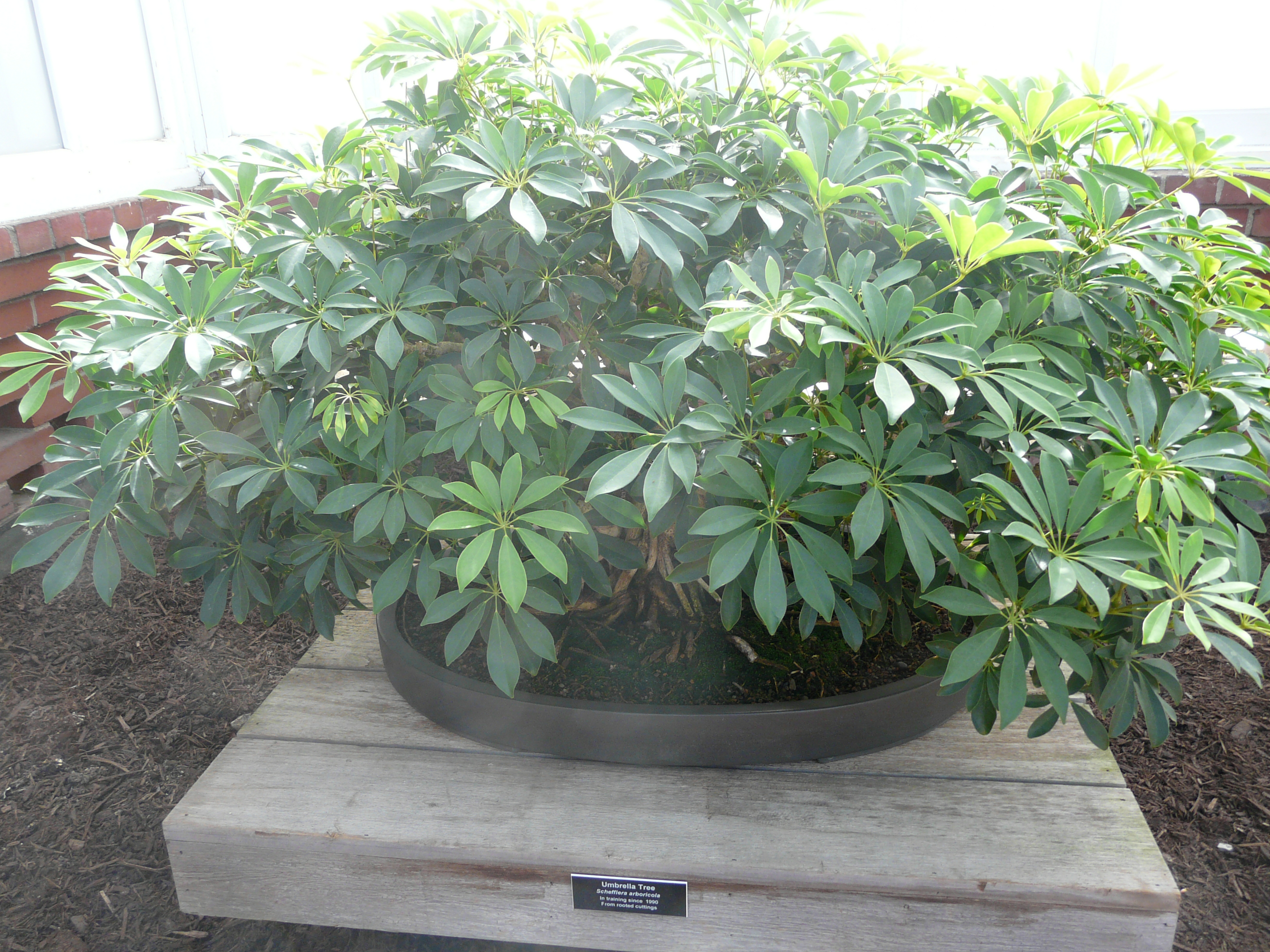 Phipps Conservatory